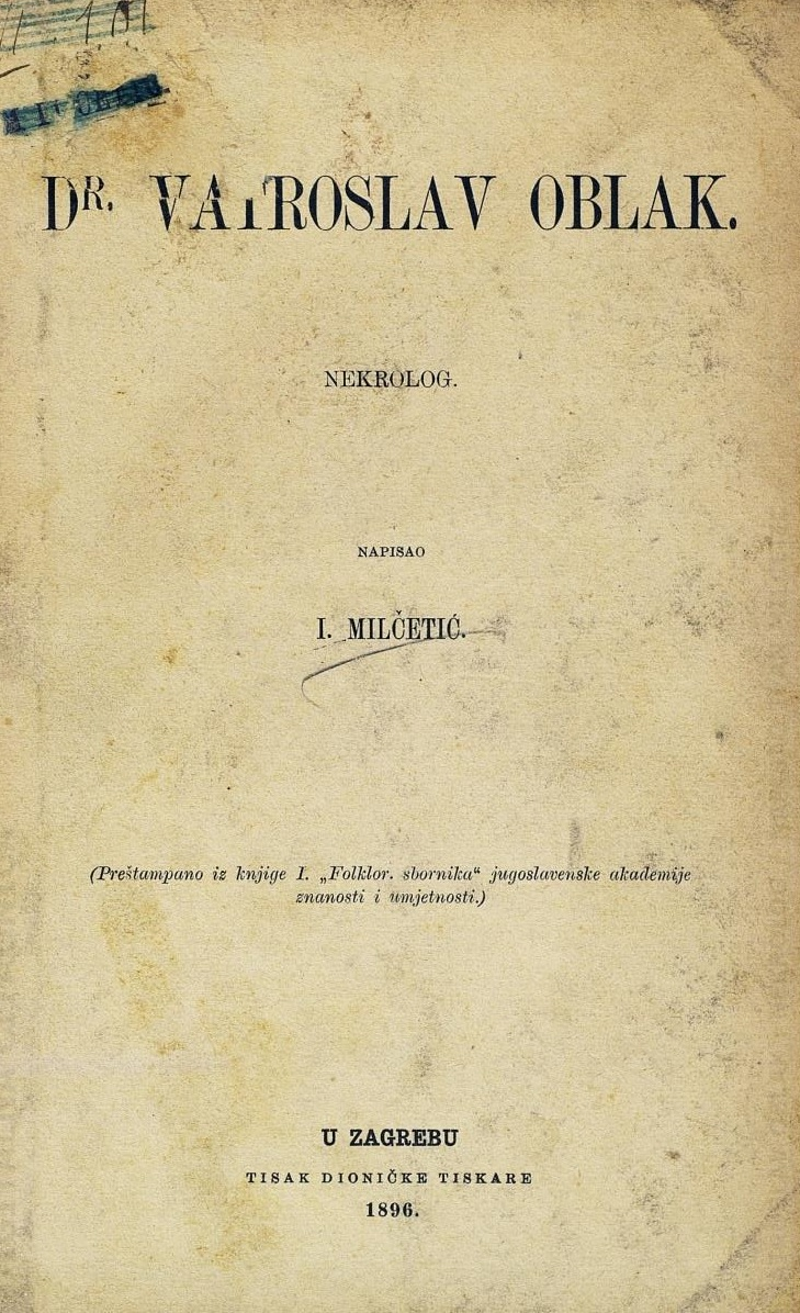 Vatroslav Oblak's Obituary